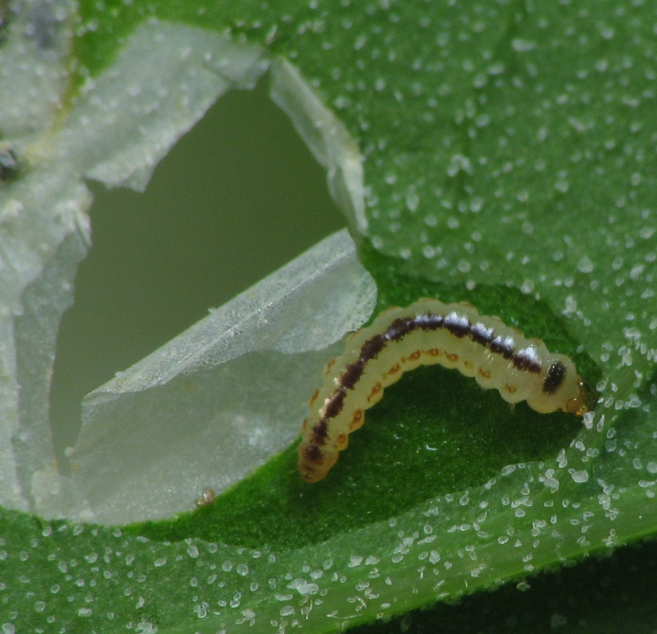 Leaf miner caterpillar (Chrysoesthia sexguttella) in lamb's quarter (Chenopodium sp.). Size: 3 mm+. Willow Grove, Montgomery County, Pennsylvania, USA. (More details: leaf miner)